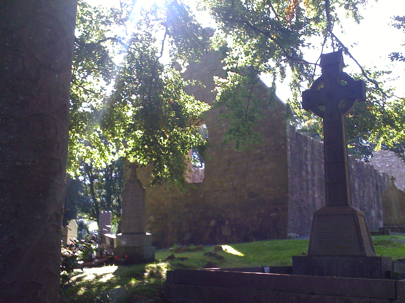 Killeavy Old Church, September 2009